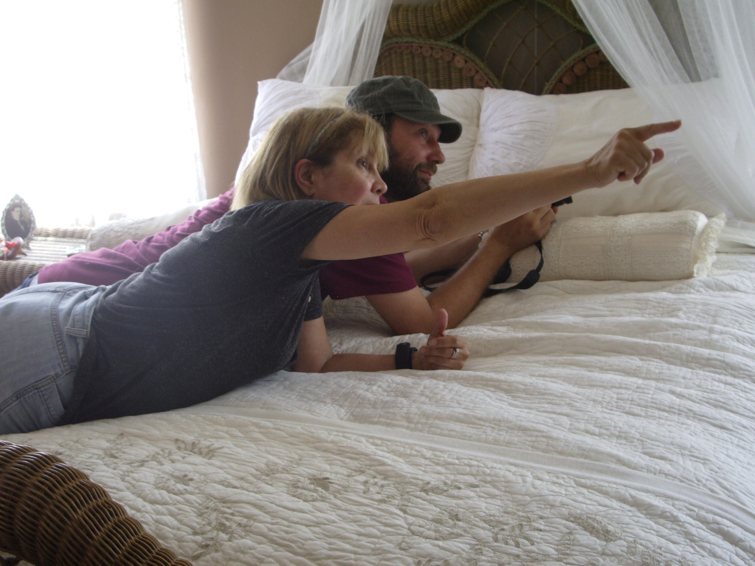 Migdia directing "Old Havana and the Great Pimp of San Isidro"